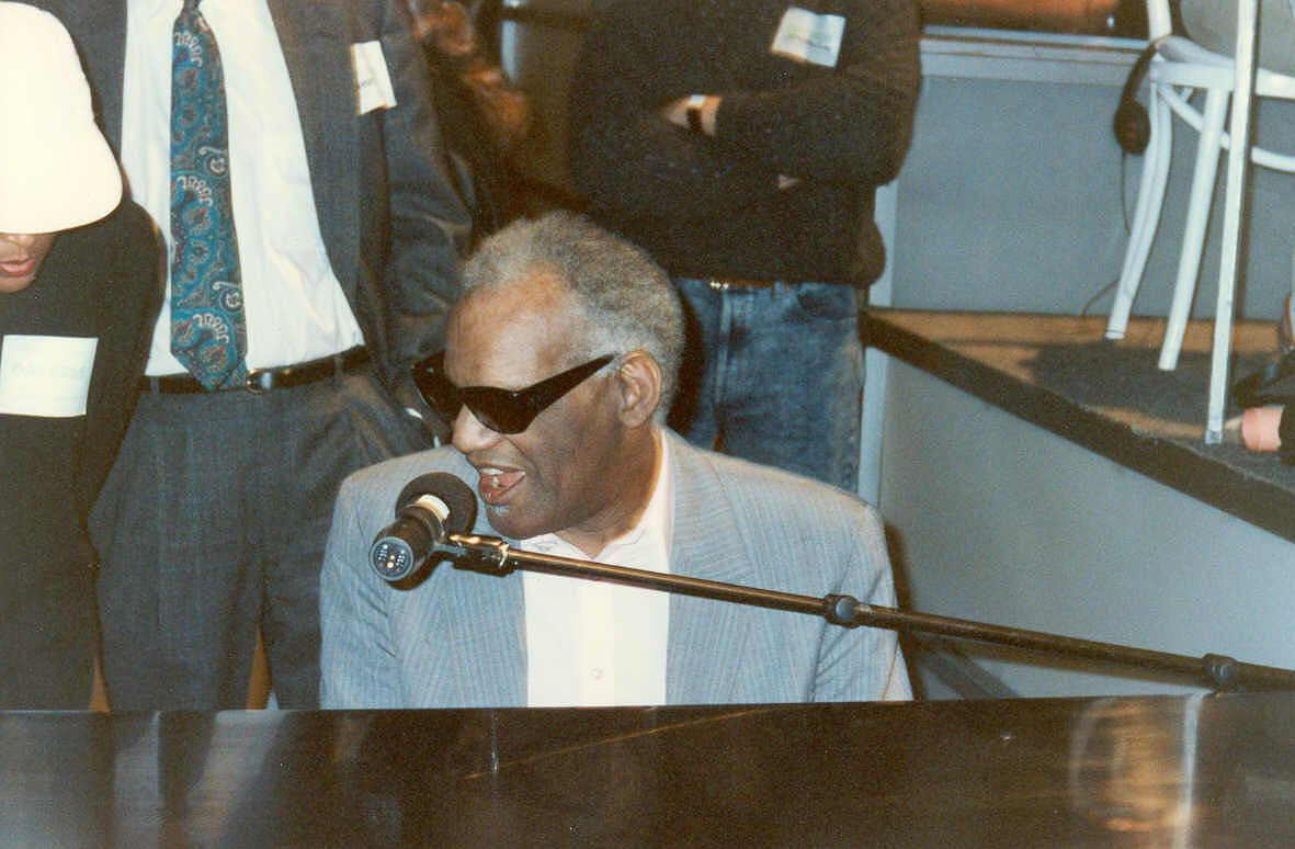 Ray Charles at Grammy Awards - rehearsal - February, 1990